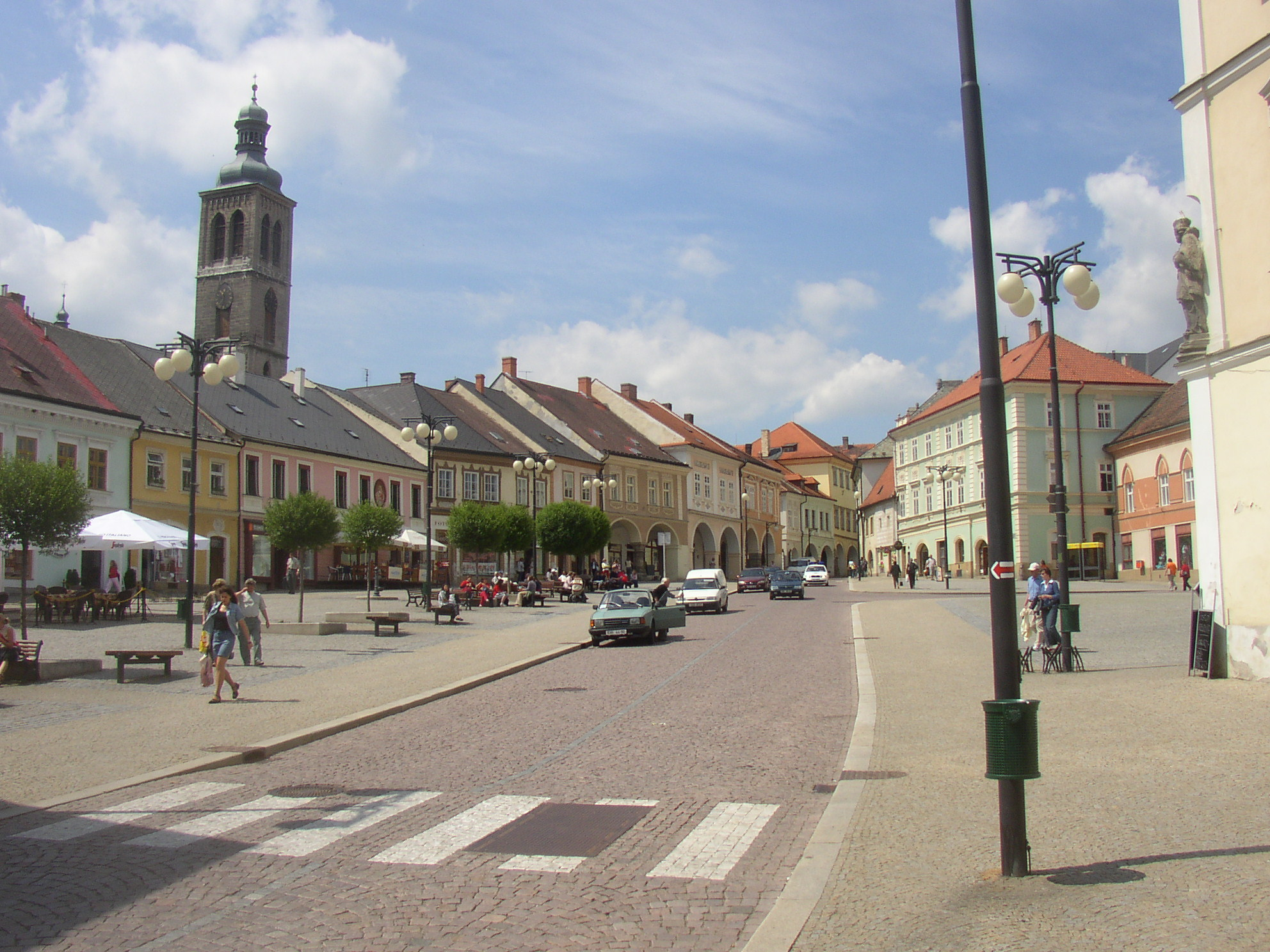 The main, Palackého Sq in Kutná Hora, Czech Republic, viewed from the corner of Tylova Street westwards.